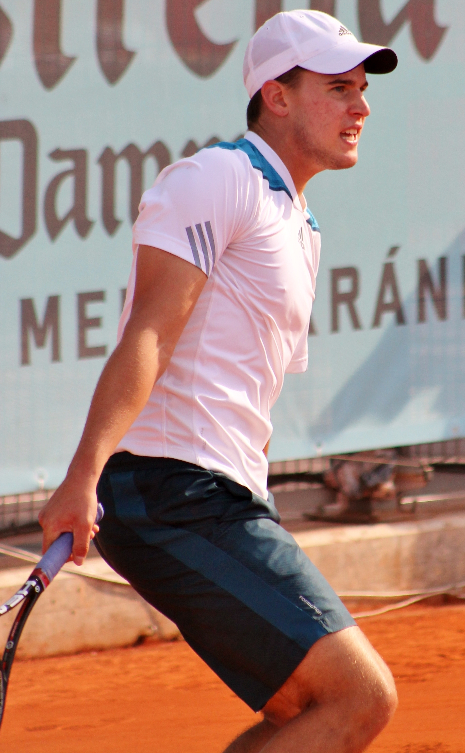 Thiem MA14 (8)